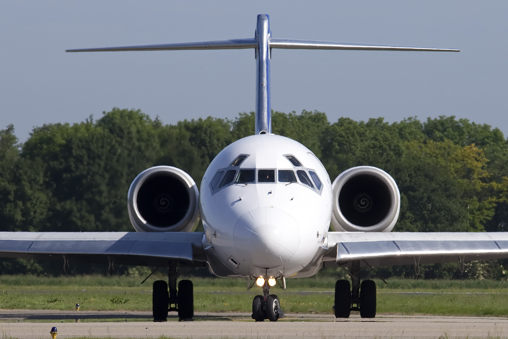 HB-JID MD90 Hello 03